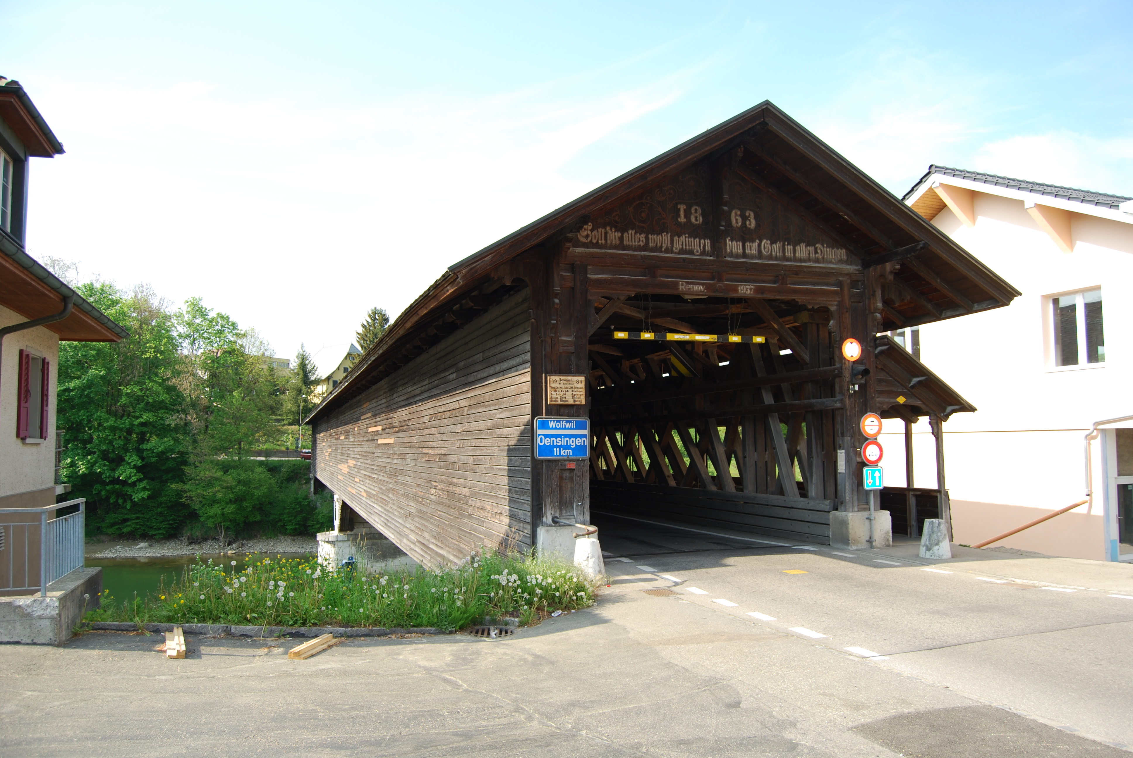 Wooden bridge over Aar from Murgenthal, canton of Aargovia, to Fulenbach, canton of Solothurn, Switzerland